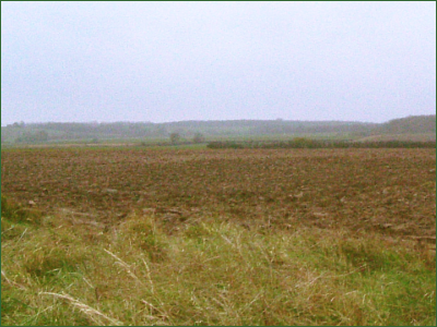 Photograph of open fields in Laxton village, Nottinghamshire